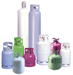 Air conditioning refrigerant is fluid that is use in air conditioner units. This substance is what absorbs the heat from indoor units to outdoor units. Air conditioner compressor is the components that move the hvac refrigerant from indoor units to outdoor units. However, it’s the air conditioning refrigerant jobs to absorb the heat from what places that need to be cool. Air conditioner refrigerant is either in the liquid or vapor state. Hvac refrigerant can change to vapor by adding heat and can being changed to liquid by removing heat. When a refrigerant absorbs heat there is two information come in mind. The refrigerant has to be at lower temperature then the heat, and the refrigerant is in liquid state. Since, heat always flows from a high intensity to a low intensity. Air Conditioner Freon: Most homeowners know what air conditioner Freon is. Freon is DuPont’s brand name of hvac refrigerant. The reason so many people are familiar with AC Freon, because it was the first brand to presented on the market. Freon is DuPont’s trade name for it air conditioning refrigerant. Every manufacturer came with it own trade name for refrigerant, here are few: Genetron Isotron Carrene Frezone Freon Puron refrigerant It’s illegal to release or vent hvac refrigerant into the atmosphere!